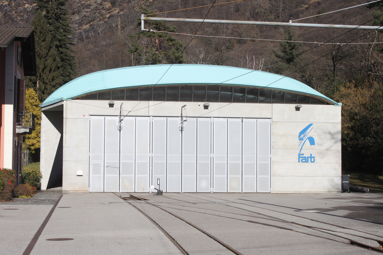 Workshops of Ferrovie Autolinee Regionali Ticinesi at Ponte Brolla.